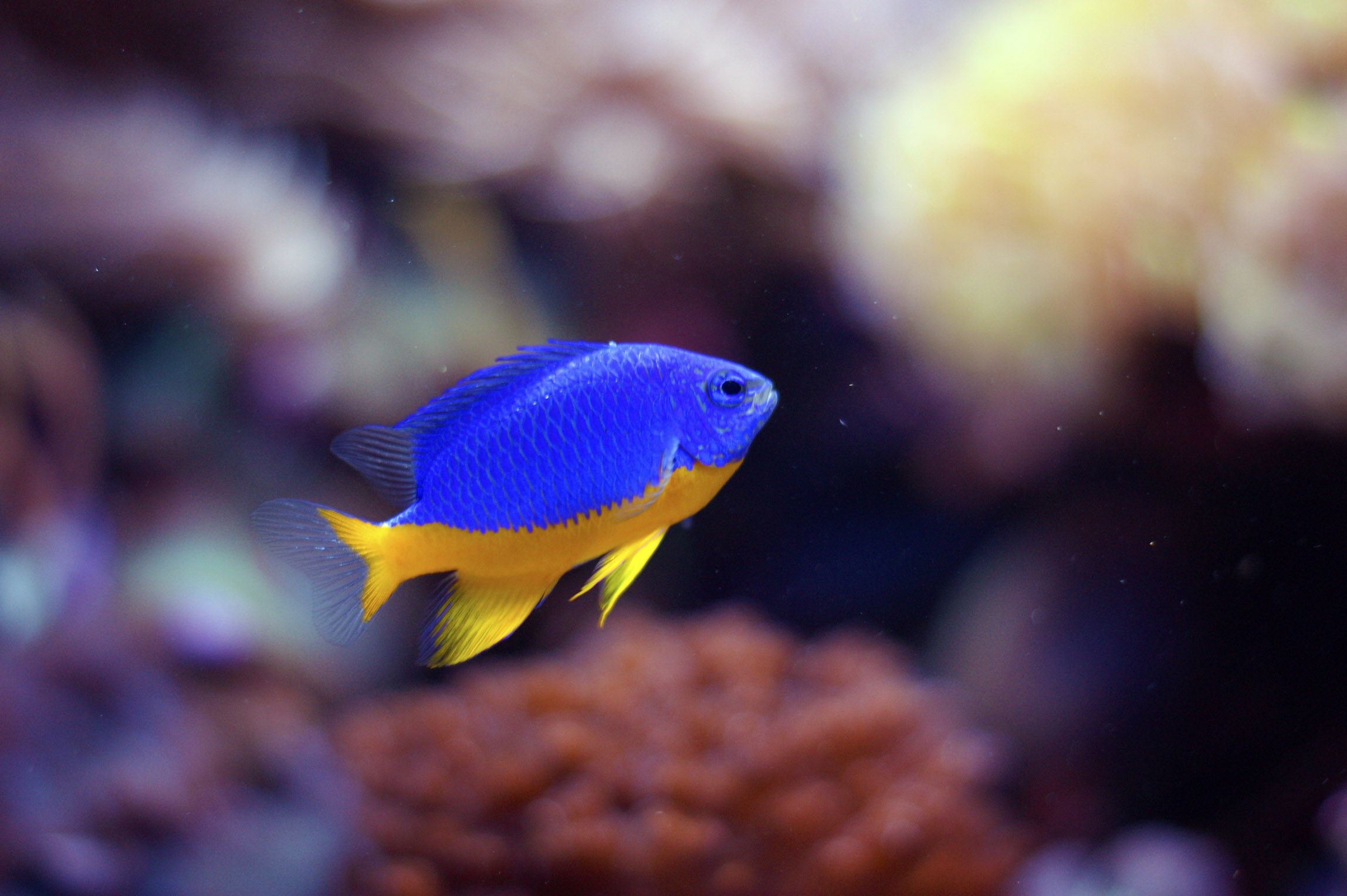 Azure Demoiselle